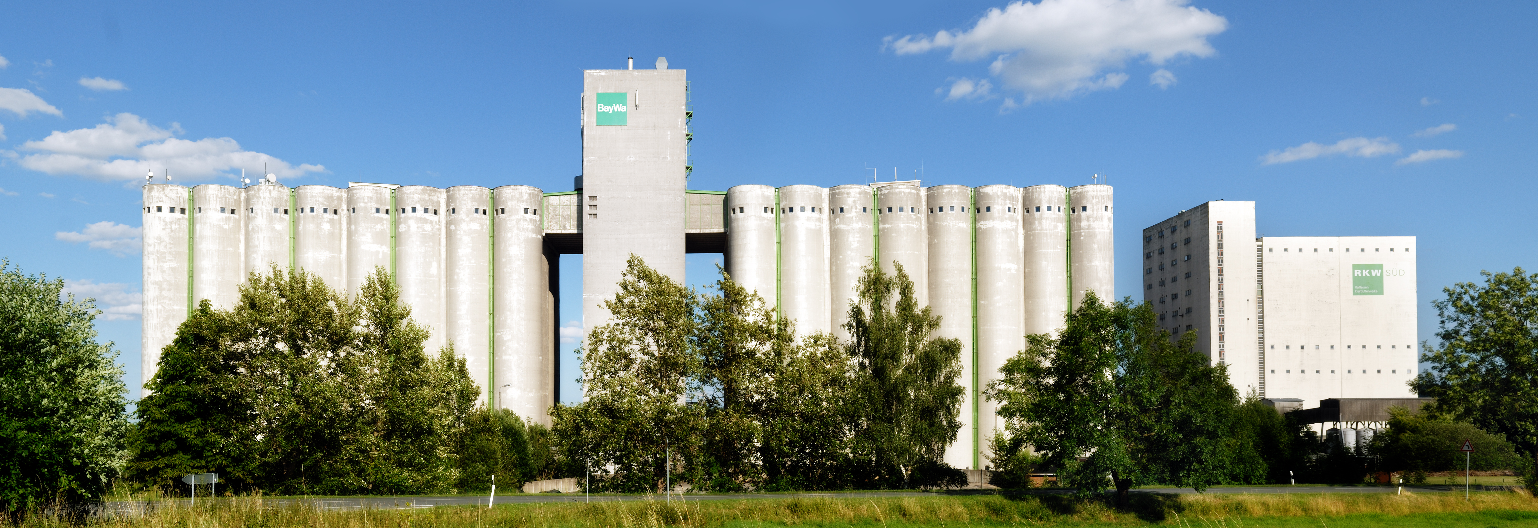 This image shows the premises of the BayWa company in Neumark, Saxony, Germany. It is a two segment panoramic image.